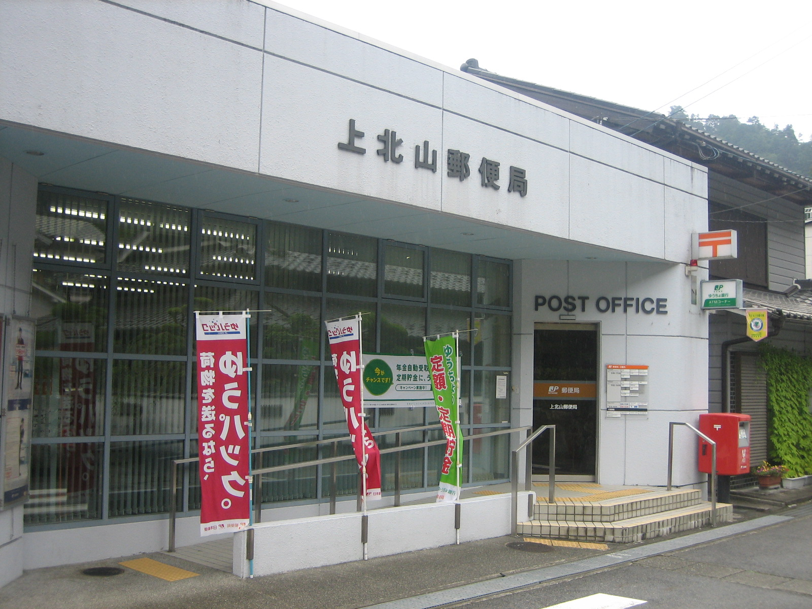 Kamikitayama post office in Nara, Japan